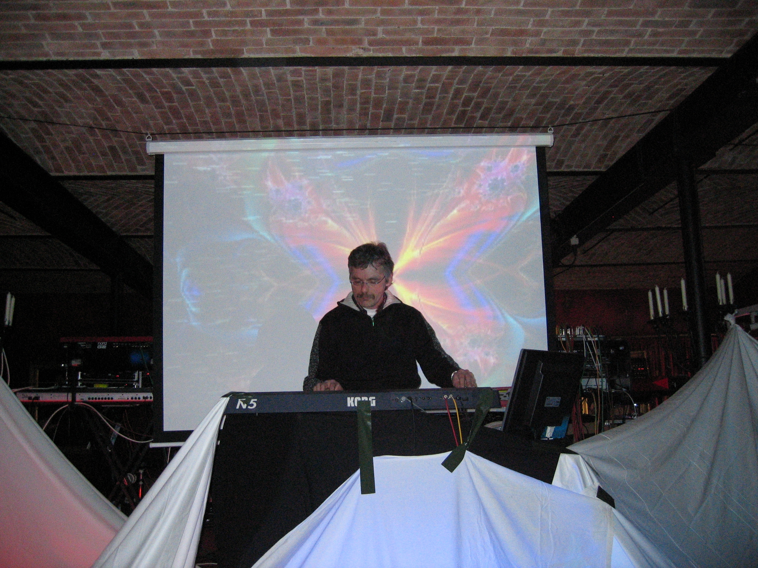 Uwe Reckzeh, Satzvey Festival, April 2007